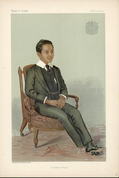 Princes No.16: Caricature of The Prince Royal of Siam. Caption reads: "A Prince Royal"